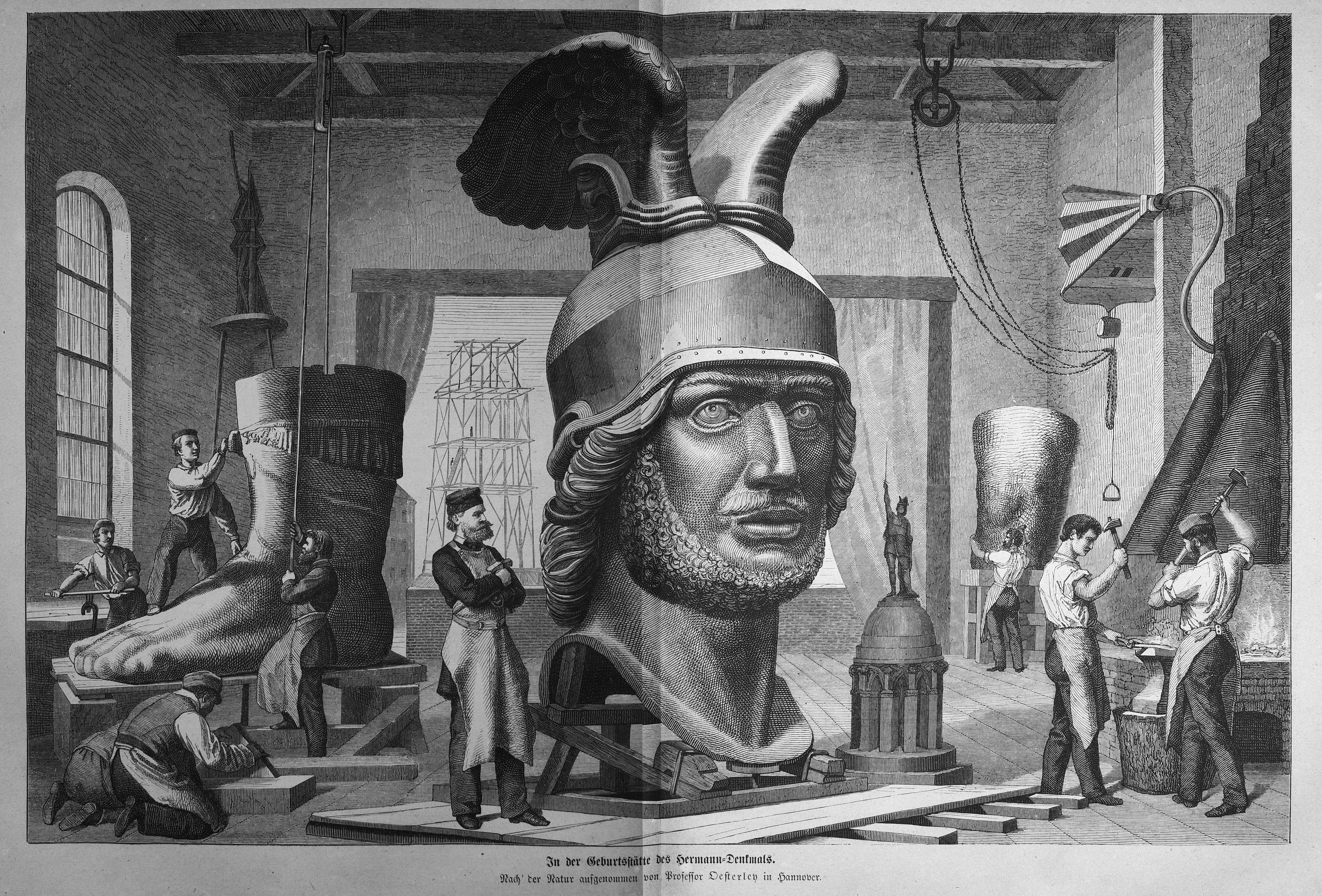 caption: "In der Geburtsstätte des Hermann-Denkmals. Nach der Natur aufgenommen von Professor Oesterley in Hannover."